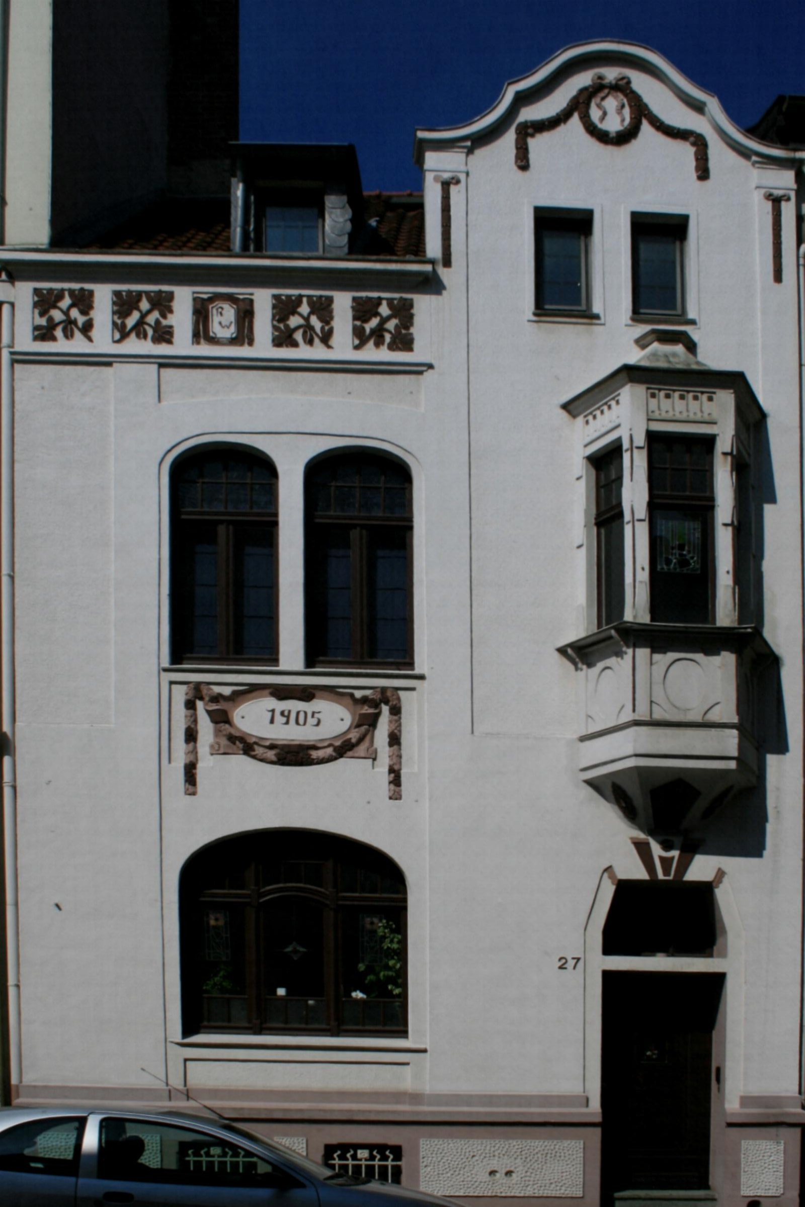 Cultural heritage monument No. T 006 in Mönchengladbach